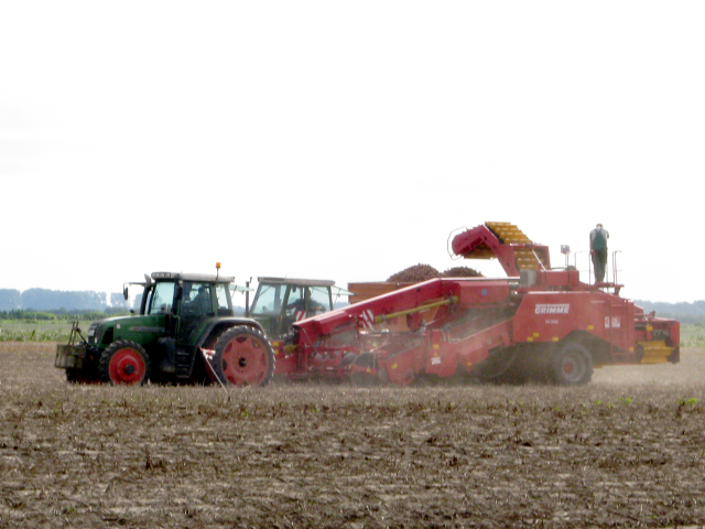 Potato Harvester GV 3000 by Grimme Company pulled by a Fendt Favorit 716 Vario during harvest activities near Krummendeich, Lower Saxony.